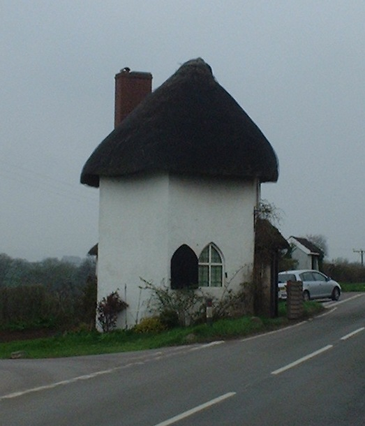 The Round House (Old Toll House) at Stanton Drew. Taken by Rod Ward 26th April 2006